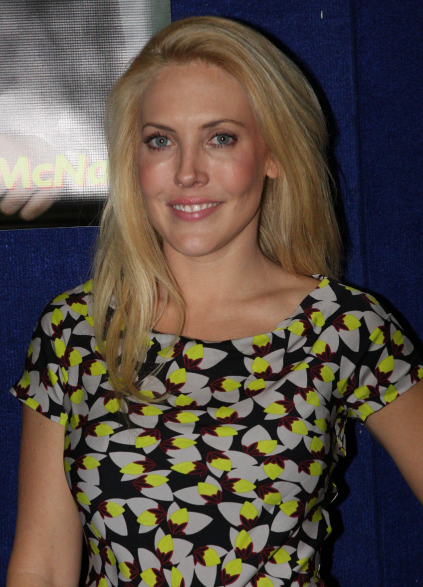 Mercedes McNab at the Supernova Pop Culture Expo Hits Sydney, Australia 2012.